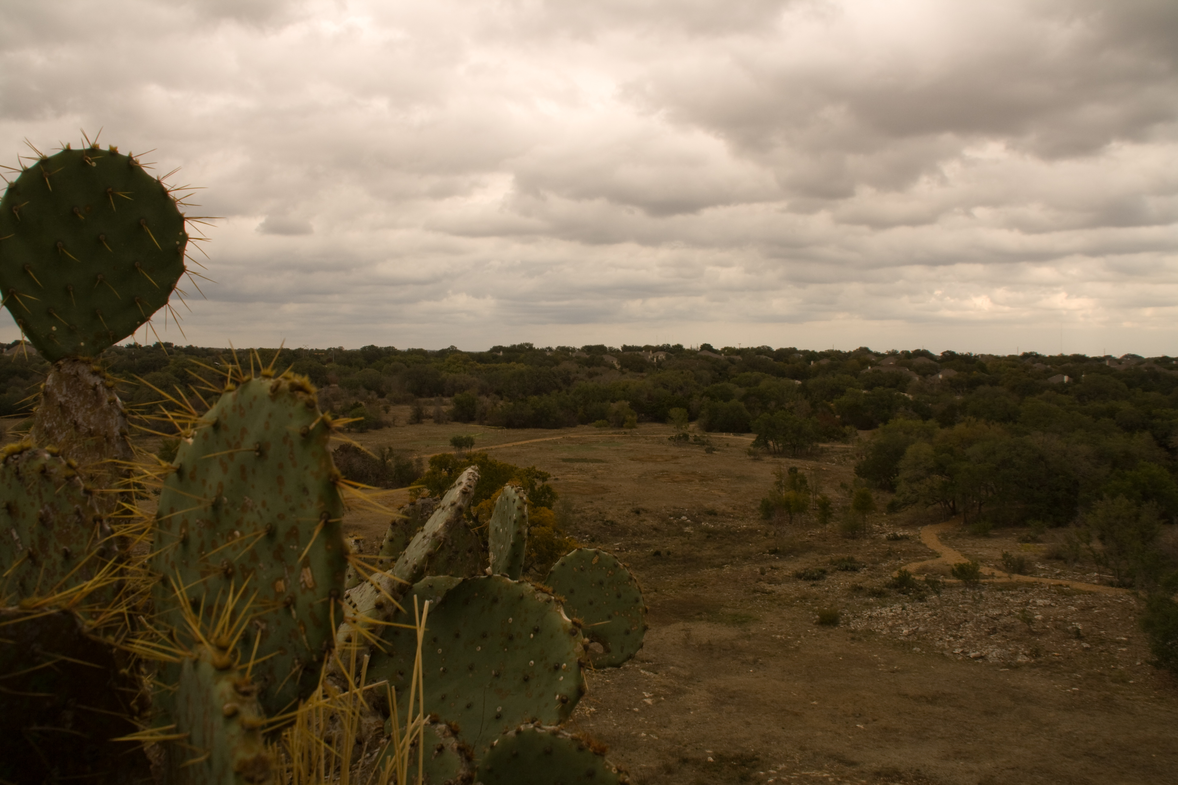 Area of Lady Bird Johnson Wildflower Center looking towards the northwest, in the direction of Circle C Ranch.